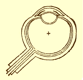 ЉУДСКО ОКО ПРЕМА ШАЈНЕРОВОМ ЦРТЕЖУ ИЗ 1619